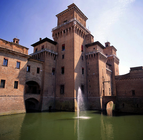 The Este Castle of Ferrara, Italy